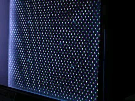 An RGB backlight unit.